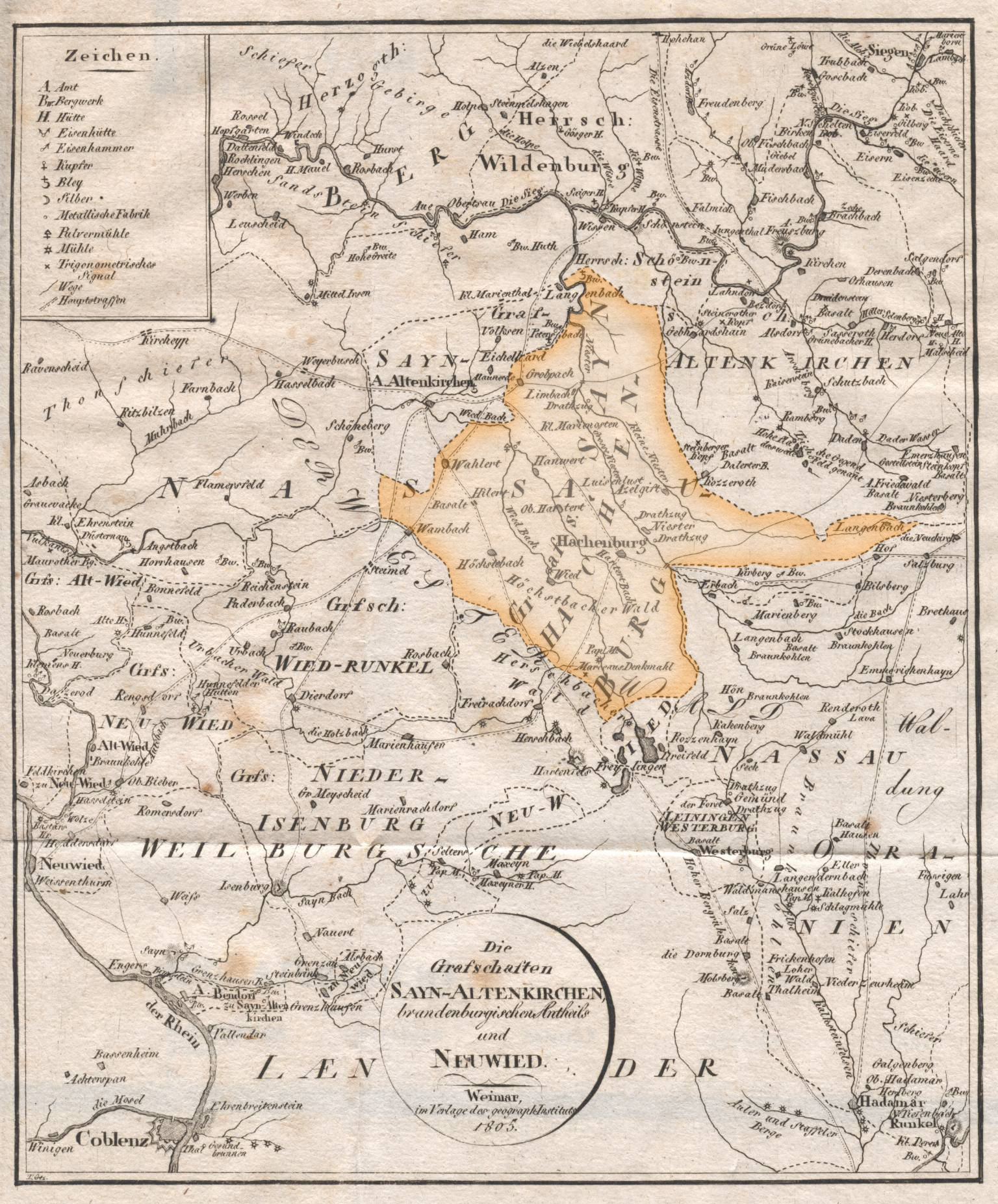 The County Sayn-Hachenburg. Originated 1805. Dimensions 19 x 23 cm. Scale approx. 1:230.000.